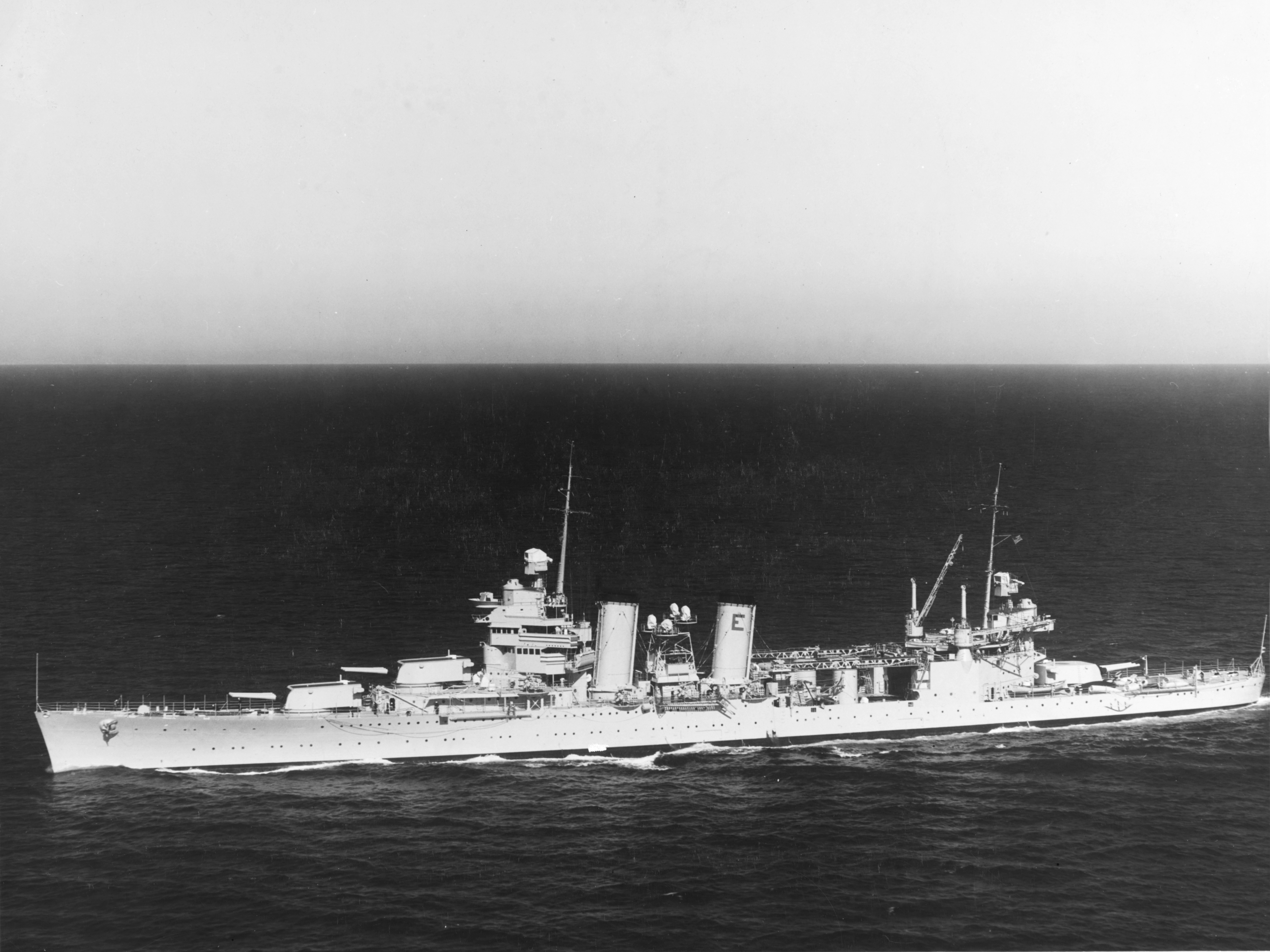 The U.S. Navy heavy cruiser USS Minneapolis (CA-36) underway at sea on 25 June 1938. She is wearing an "E" award, for engineering excellence, on her after smokestack.